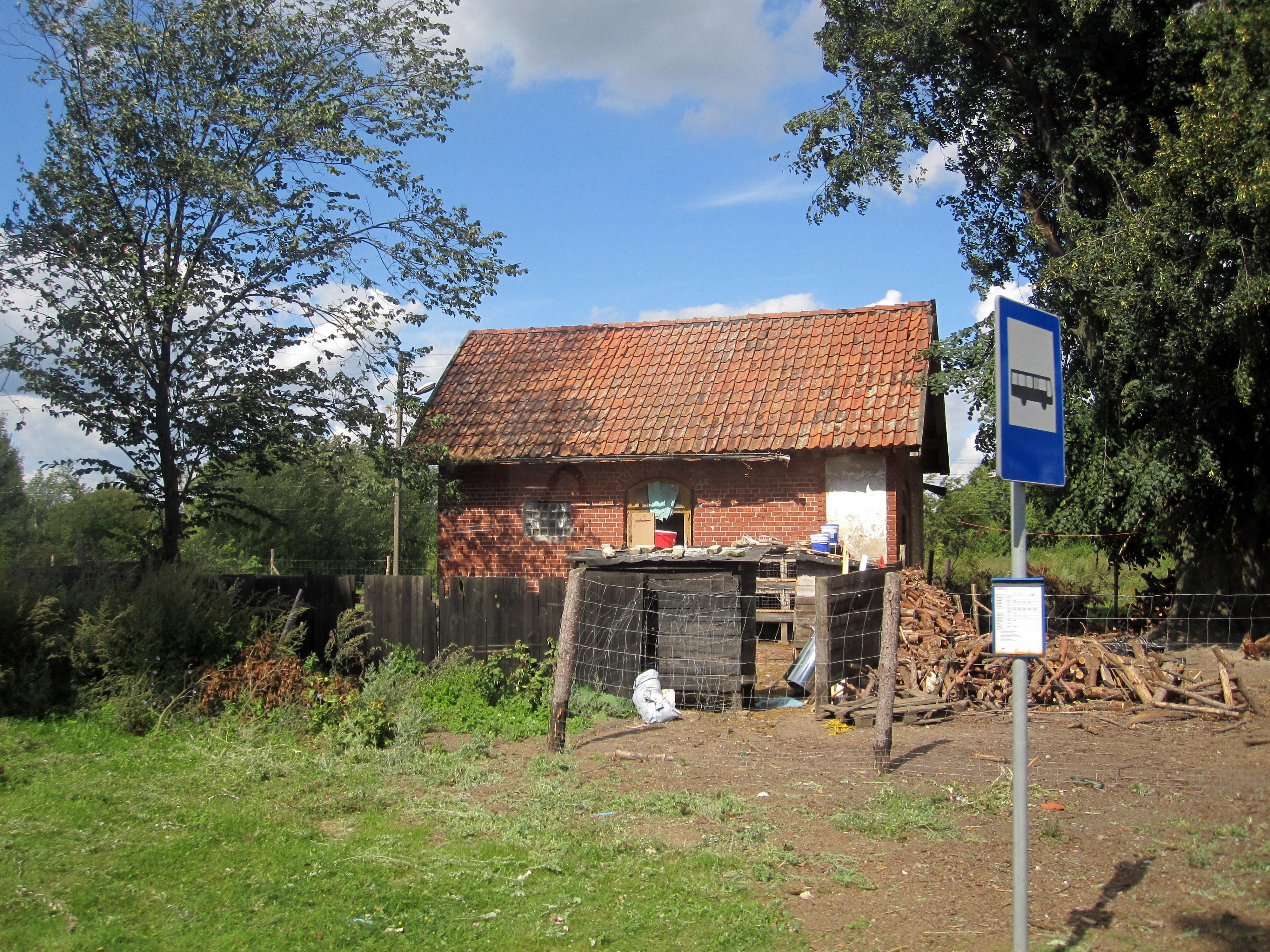 Building in Kosewo